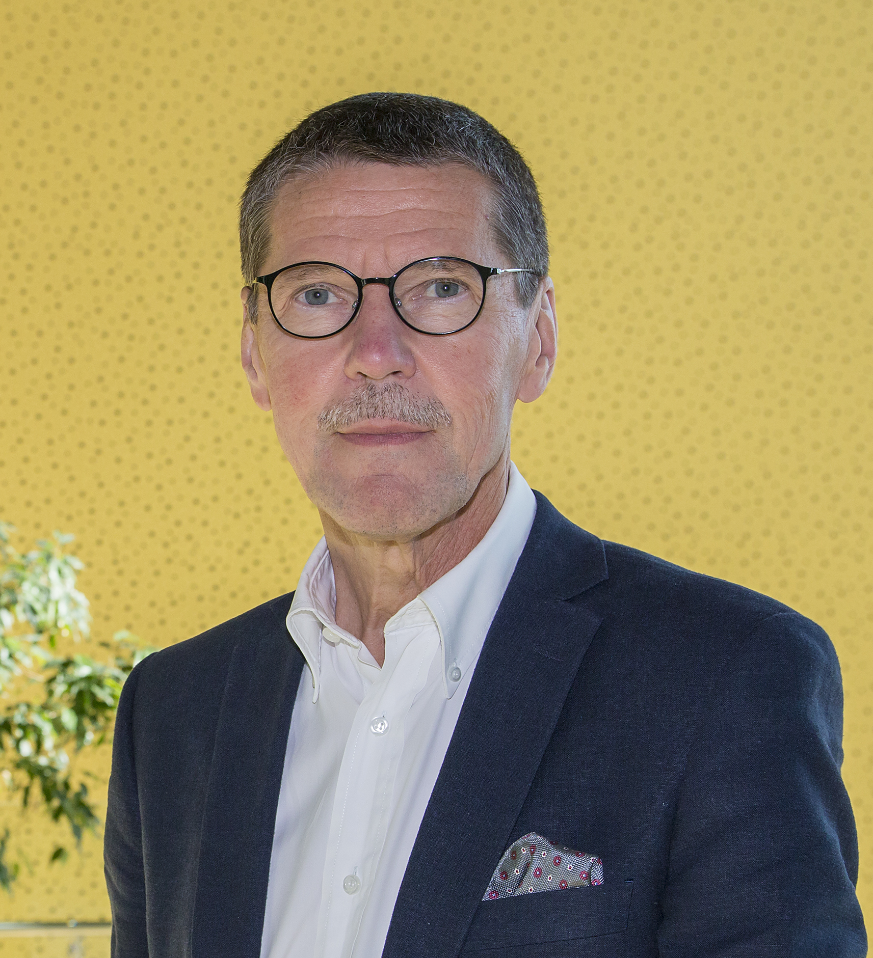 M.Lehto portrait